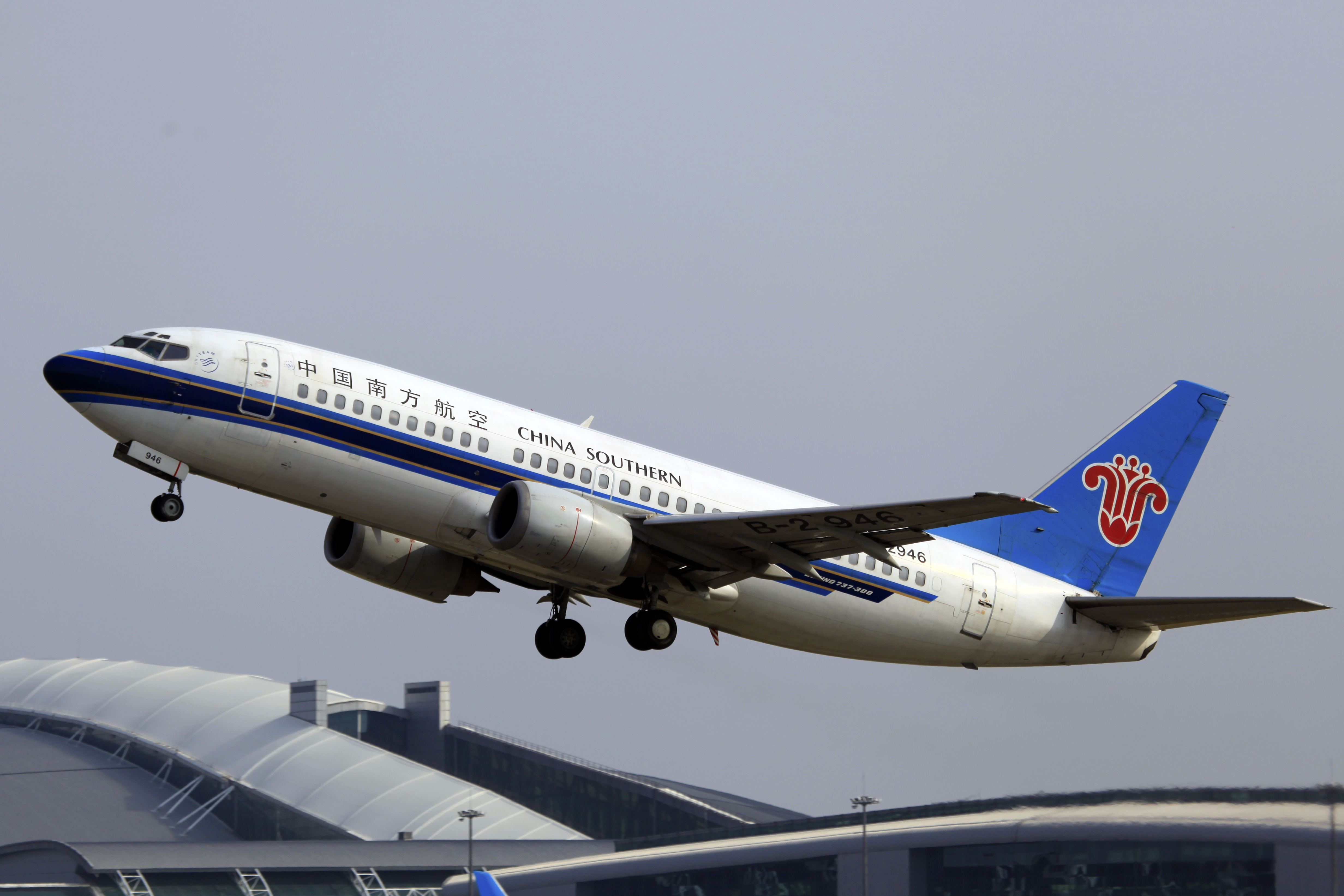 B-2946 | China Southern Airlines | Boeing 737-37K | Guangzhou Baiyun International Airport [CAN]